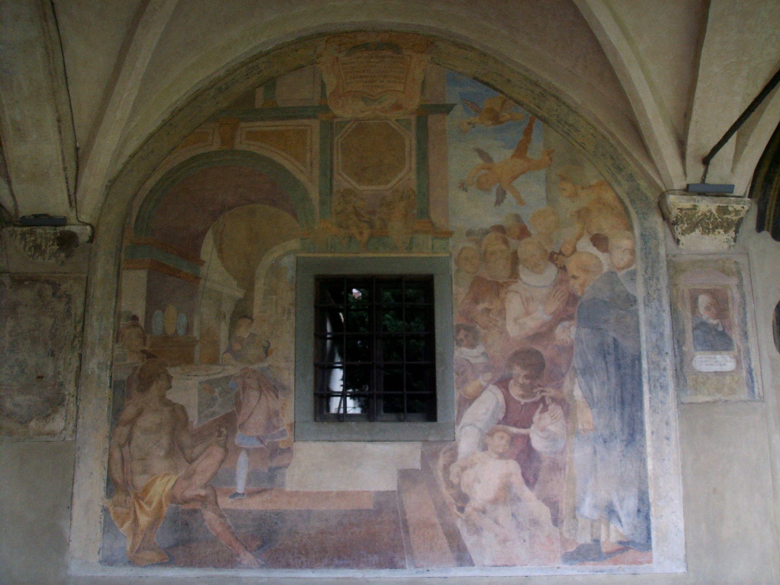 Chiostro Grande in Santa Maria Novella church fresco in Florence, Italy